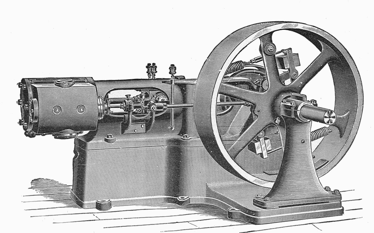 Racine high-speed steam engine (New Catechism of the Steam Engine, 1904).jpg